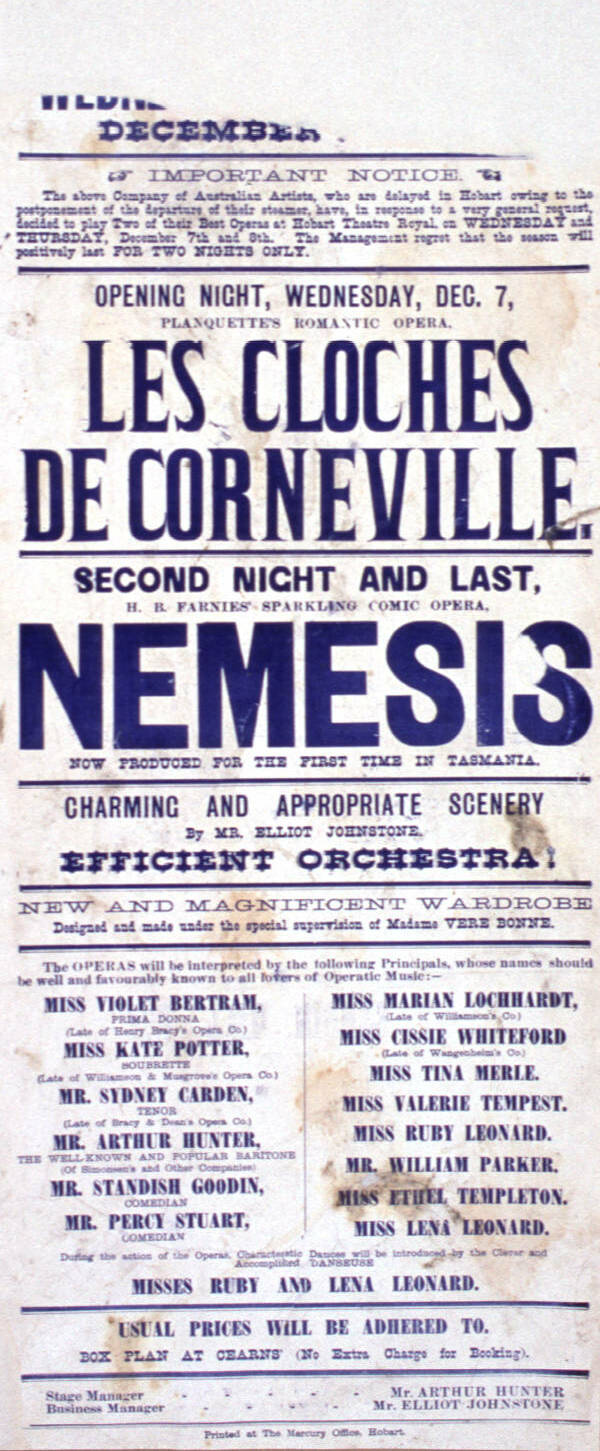 Poster for Les cloches de Corneville and Nemesis 1898 production in Tasmania.